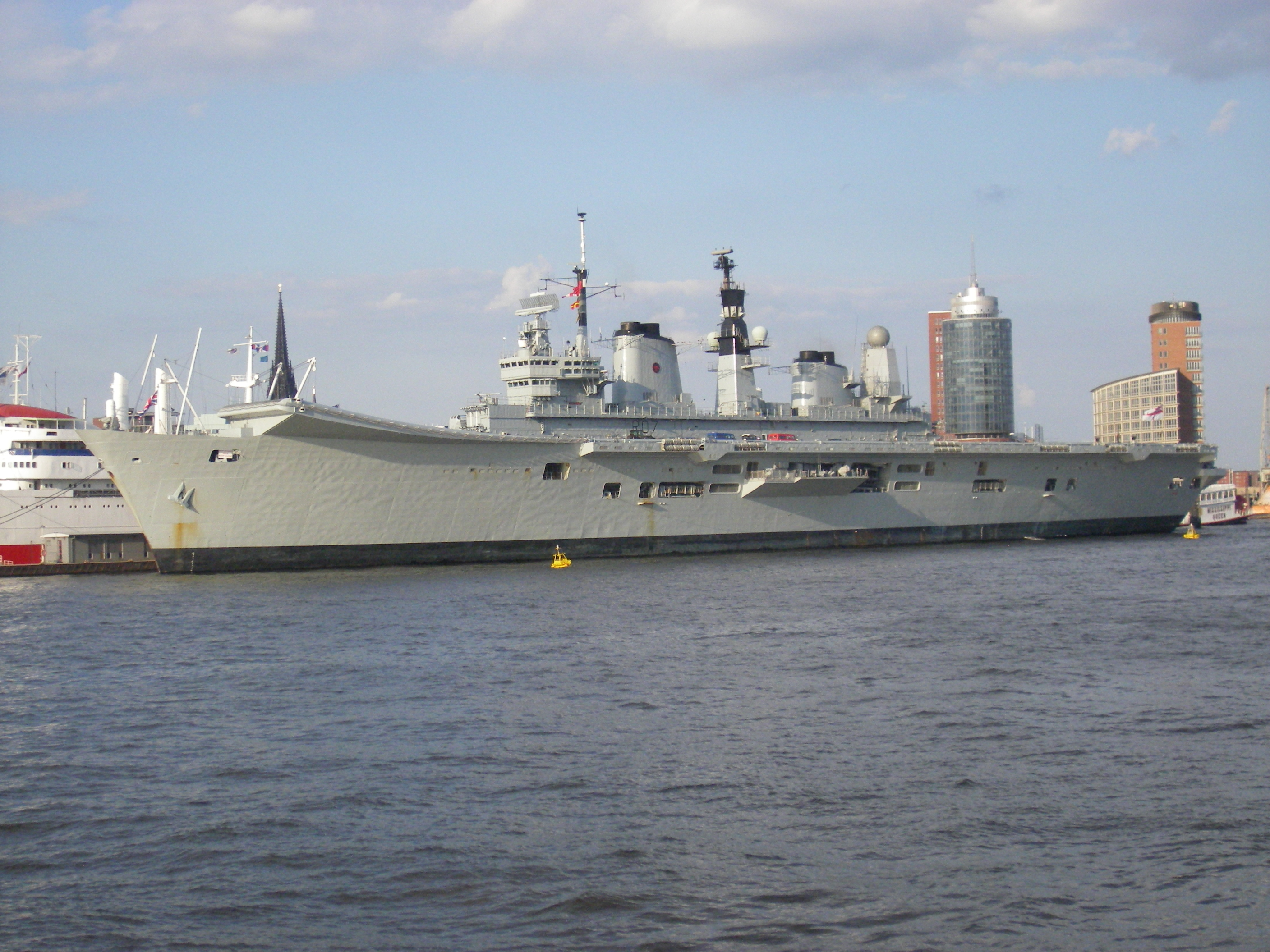 Aircraft carrier HMS Ark Royal (R07) in the Hamburg harbour, May 31st, 2007